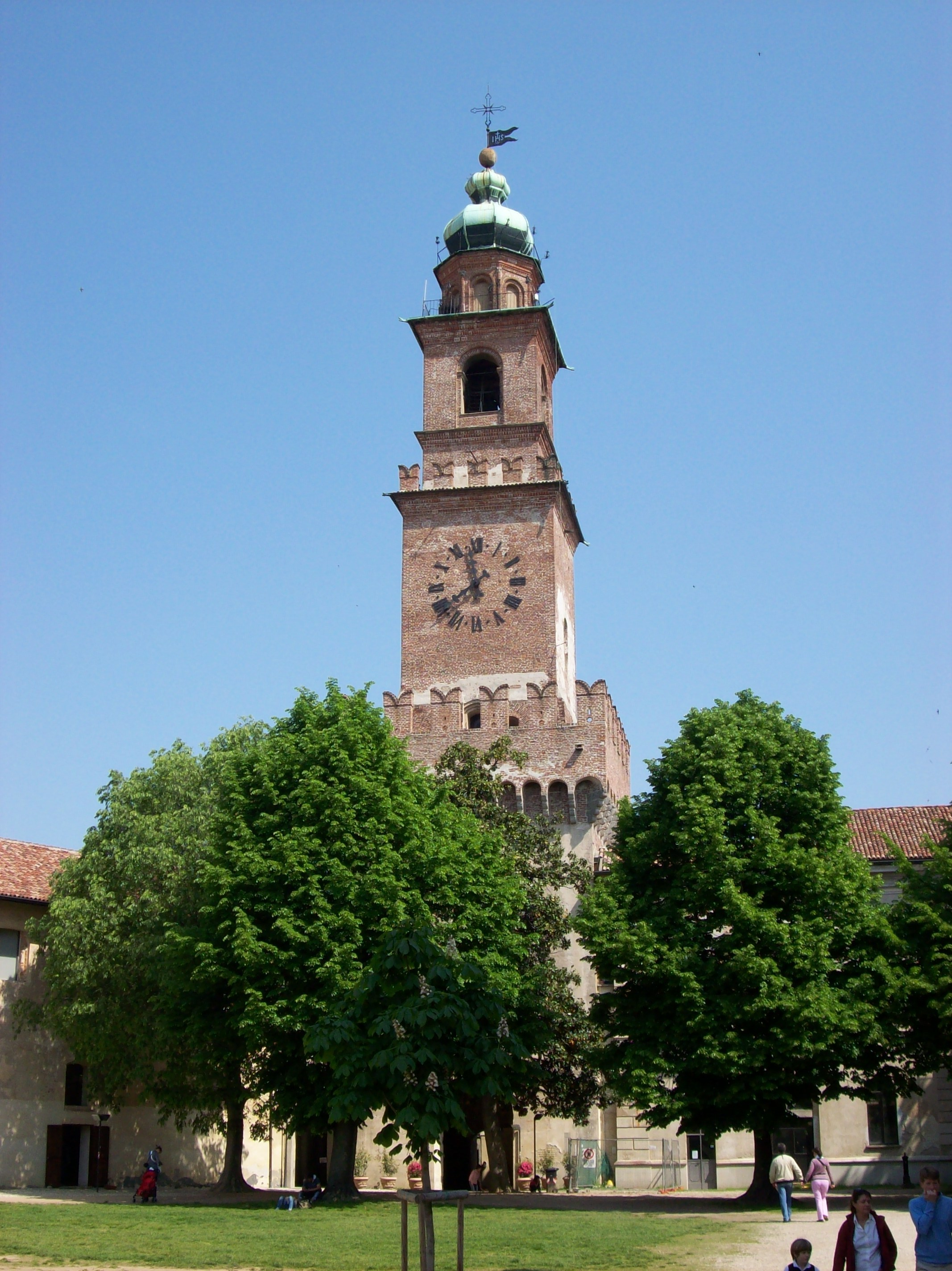 Castello Sforzesco in Vigevano, province of Pavia, Italy: Tower built by Bramante